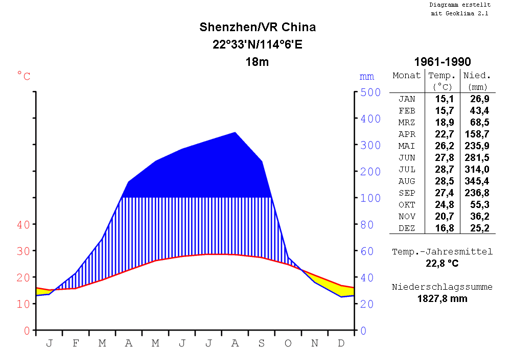 climate chart of Shenzhen, China, for the period of time from 1961 to 1990, in the format by Walter and Lieth, metric, °Celsius and millimeters, chart made with Geoklima 2.1, label in German